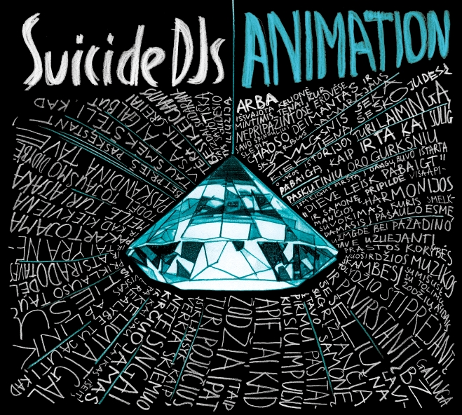 The cover picture of Suicide DJs album Animation (...) - probably the longest title in the world (consisting of 156 words)